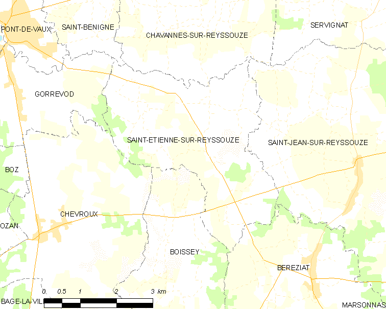 Map of French commune: Saint-Étienne-sur-Reyssouze Map commune FR insee code 01352.png